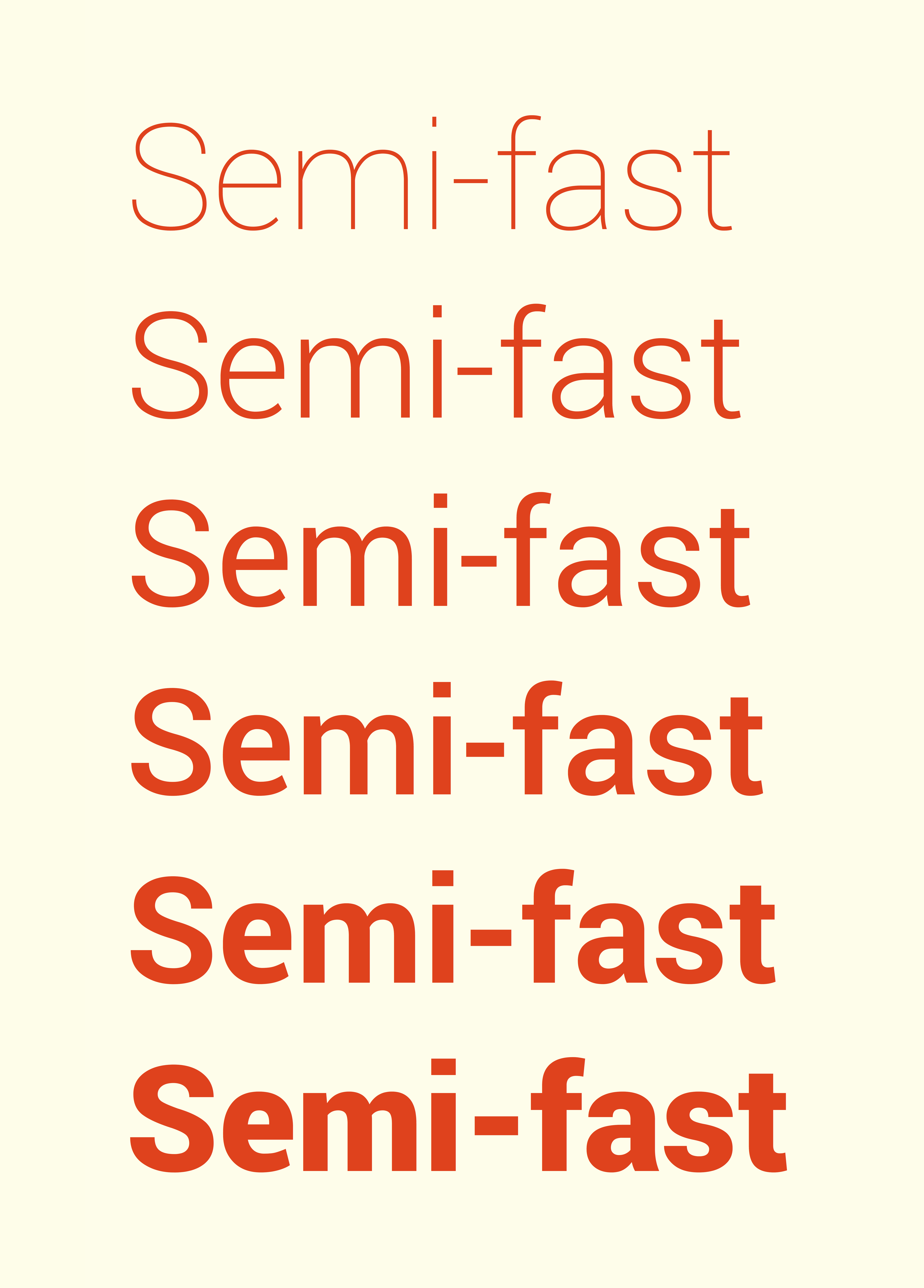 A sample of how Roboto increases weight from thin to black weights. This image was created for the Roboto article, but might also be useful for anyone looking for a sample image to show font weights since the font is fully open-source.